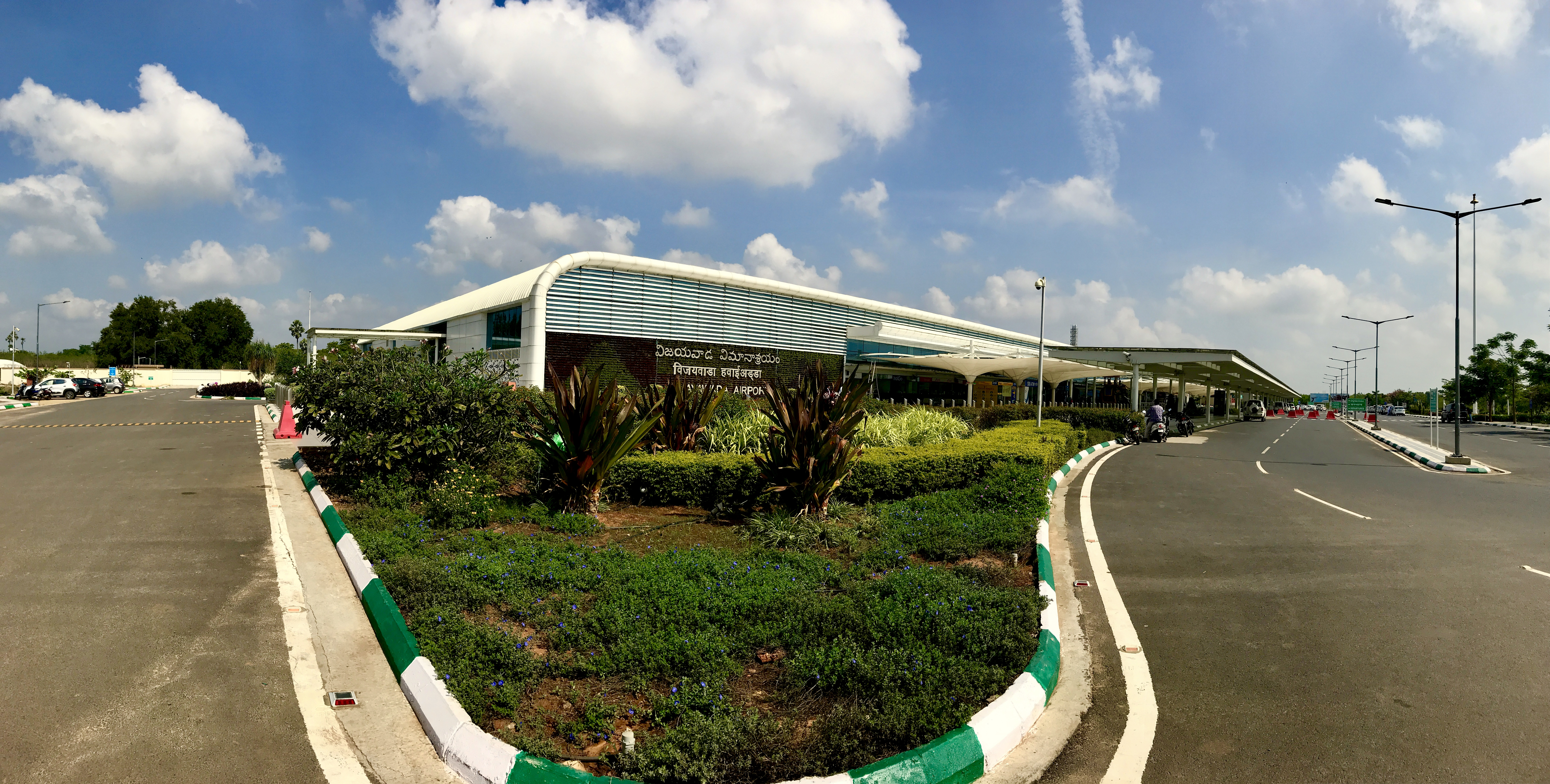 Panorama of Vijayawada Airport in (November 2018)